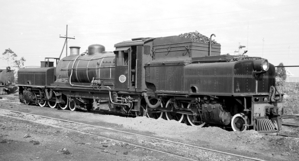 Class GDA 2255 (2-6-2+2-6-2)Location: Stanger Depot